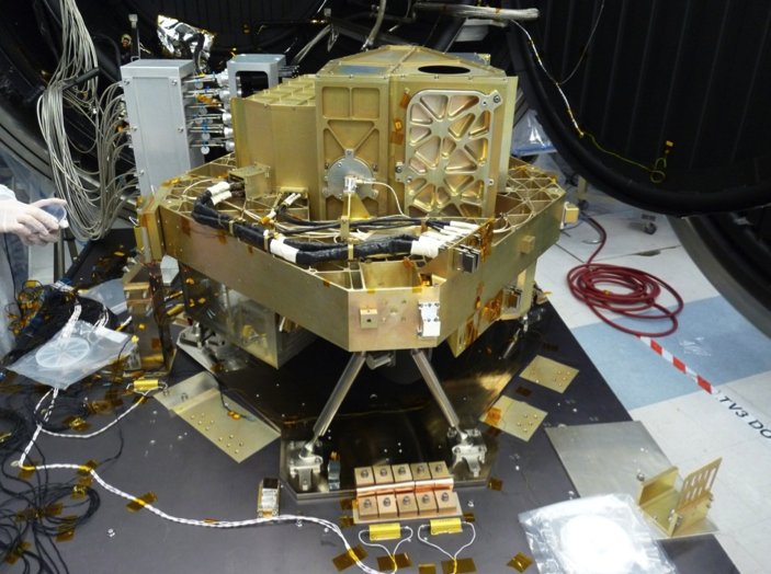 JWST FGS ETU picture